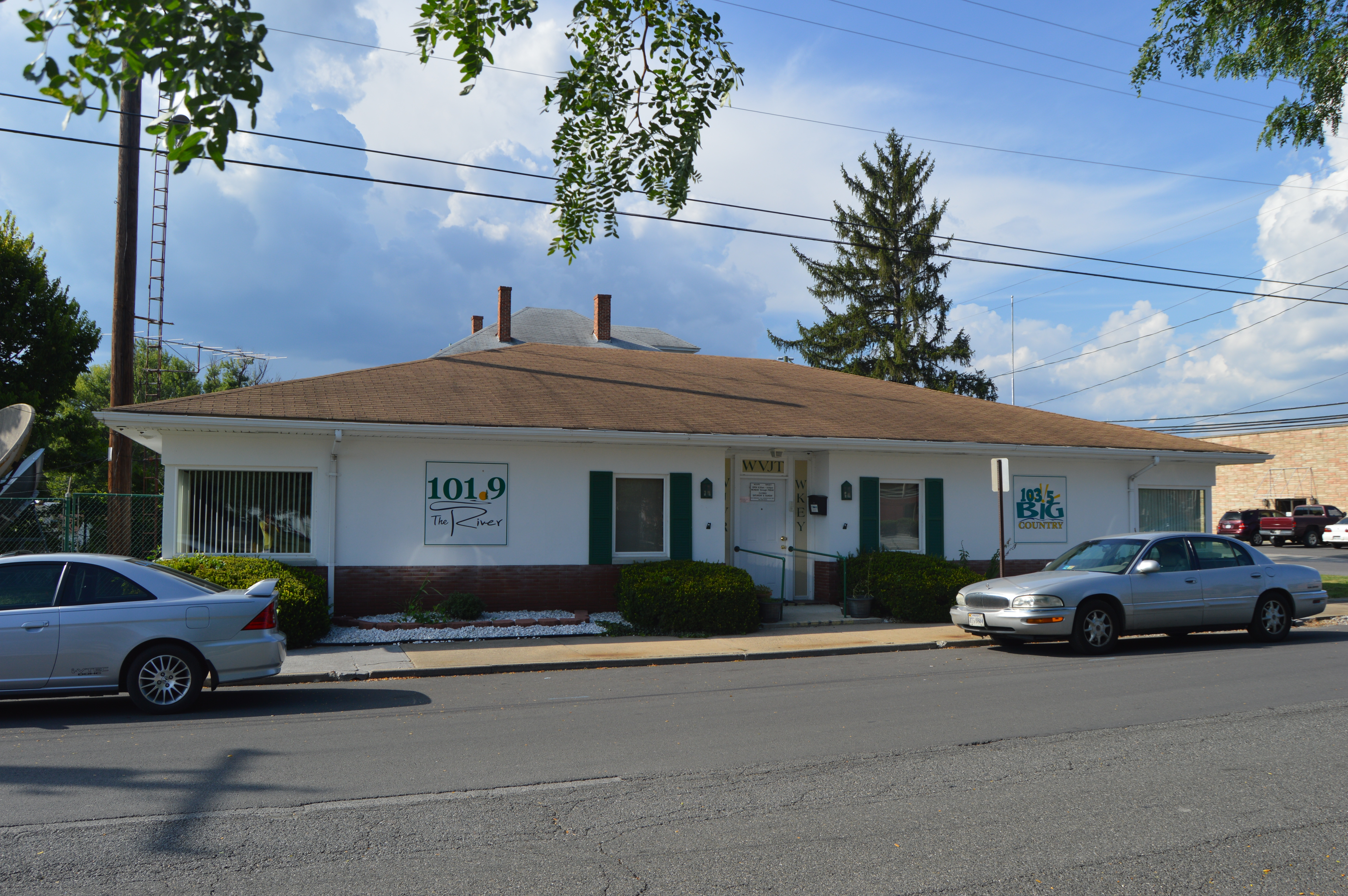 Front of the building housing offices for the WJVR and WKEY radio stations, located at the intersection of Oak Street and Lexington Avenue in Covington, Virginia, United States.